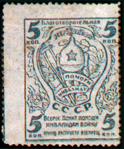 Revenue stamp of voluntary gathering of the All-Russia committee of the help to invalids of war, 1924